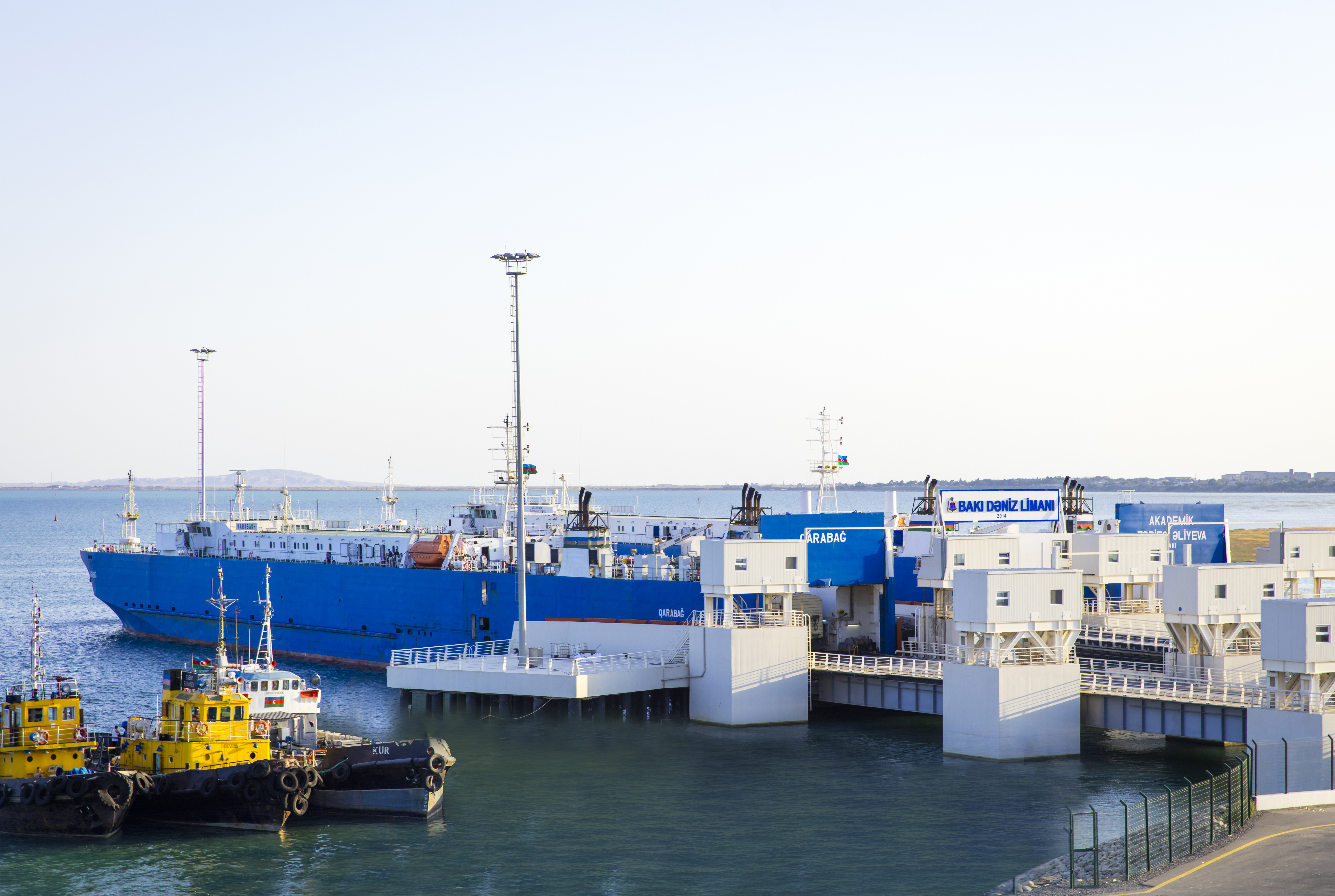 The new Port of Baku at Alat